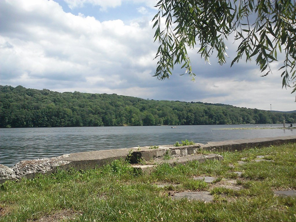 Stairs down into Walton Lake. Land is now private property. Photograph taken from what was historically a swimming area owned by the homeowners in Walton park. Photograph taken prior to private ownership